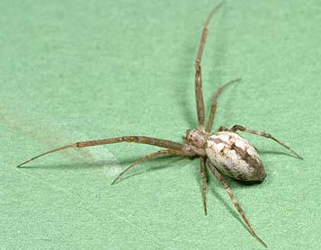 Female Octonoba grandiprojecta from Okinawa (Japan).